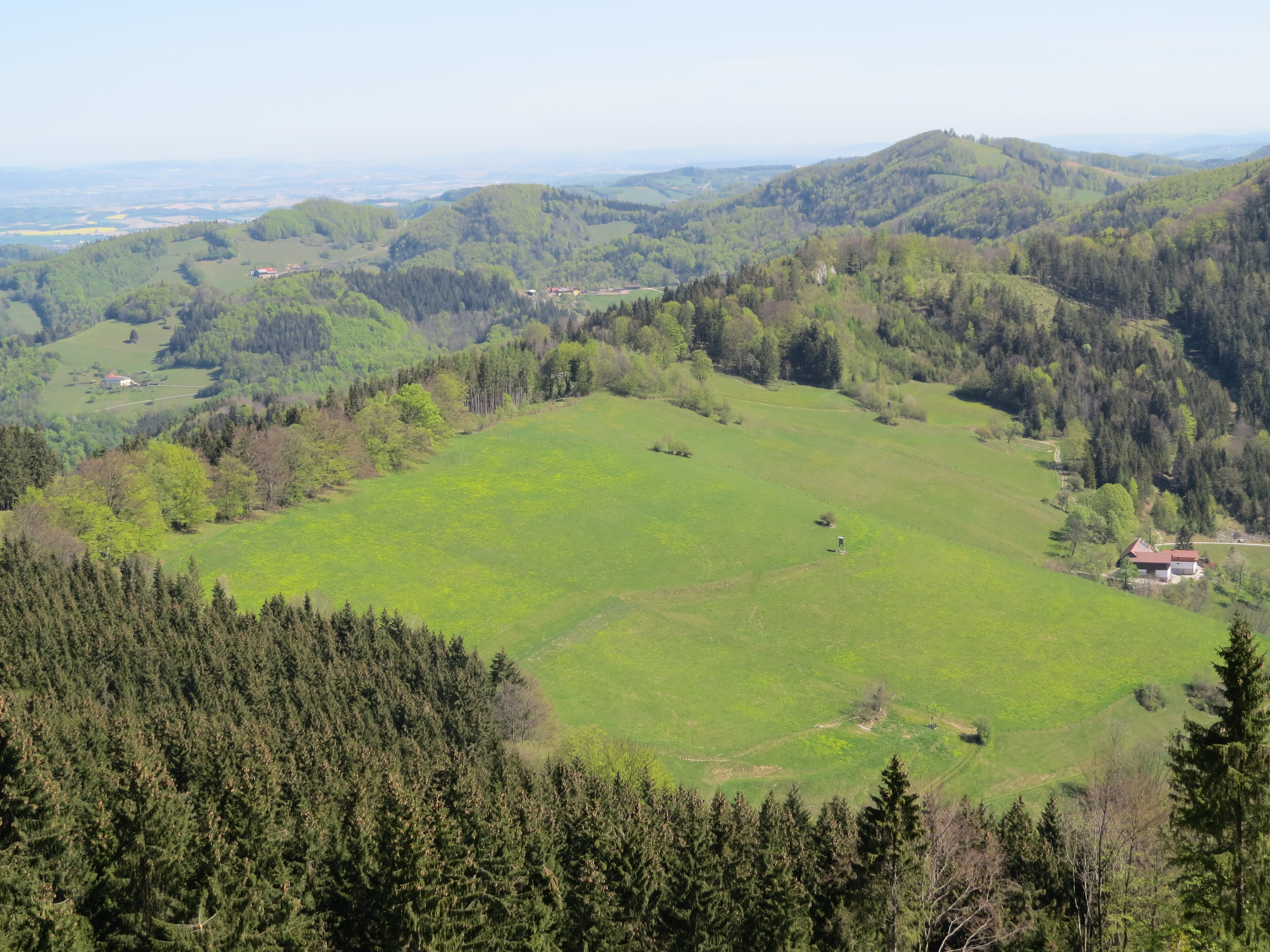 View from Grüntalkogel to east to Texingtal and Frankenfels, Austria